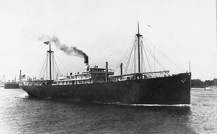 S.S. El Oriente (American Freighter, 1910) Underway in harbor, prior to World War I. This ship served as USS El Oriente (ID # 4504) in 1918-1919. U.S. Naval Historical Center Photograph.